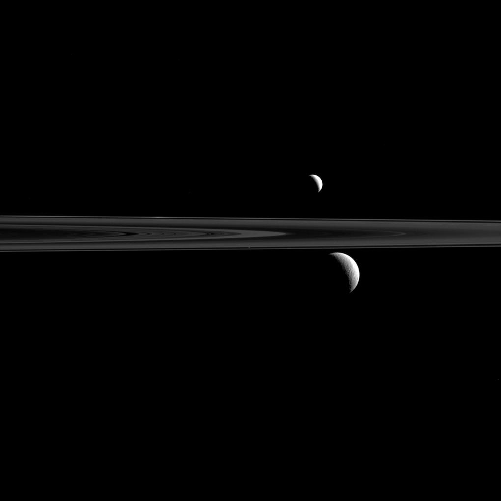 PIA18352: Triple Play - Saturn's Rings & Enceladus & Rhea September 24, 2015 NASA's Cassini spacecraft captured Enceladus above the rings and Rhea below. The comparatively tiny speck of Atlas can also be seen just above and to the left of Rhea, and just above the thin line of Saturn's F ring. What looks like a pair of Saturnian satellites is actually a trio upon close inspection. Here, Cassini has captured Enceladus (313 miles or 504 kilometers across) above the rings and Rhea (949 miles or 1,527 kilometers across) below. The comparatively tiny speck of Atlas (19 miles or 30 kilometers across) can also be seen just above and to the left of Rhea, and just above the thin line of Saturn's F ring. This view looks toward the unilluminated side of the rings from about 0.34 degrees below the ring plane. The image was taken in visible light with the Cassini spacecraft narrow-angle camera on Sept. 24, 2015. The view was obtained at a distance of approximately 1.8 million miles (2.8 million kilometers) from Rhea. Image scale on Rhea is 10 miles (16 kilometers) per pixel. The distance to Enceladus was 1.3 million miles (2.1 million kilometers) for a scale of 5 miles (8 kilometers) per pixel. The distance to Atlas was 1.5 million miles (2.4 million) kilometers) for an image scale at Atlas of 9 miles (14 kilometers) per pixel. The Cassini mission is a cooperative project of NASA, ESA (the European Space Agency) and the Italian Space Agency. The Jet Propulsion Laboratory, a division of the California Institute of Technology in Pasadena, manages the mission for NASA's Science Mission Directorate, Washington. The Cassini orbiter and its two onboard cameras were designed, developed and assembled at JPL. The imaging operations center is based at the Space Science Institute in Boulder, Colorado. For more information about the Cassini-Huygens mission visit and The Cassini imaging team homepage is at